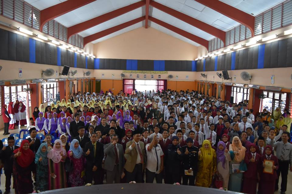 Majlis Pelantikan Pemimpin Pelajar